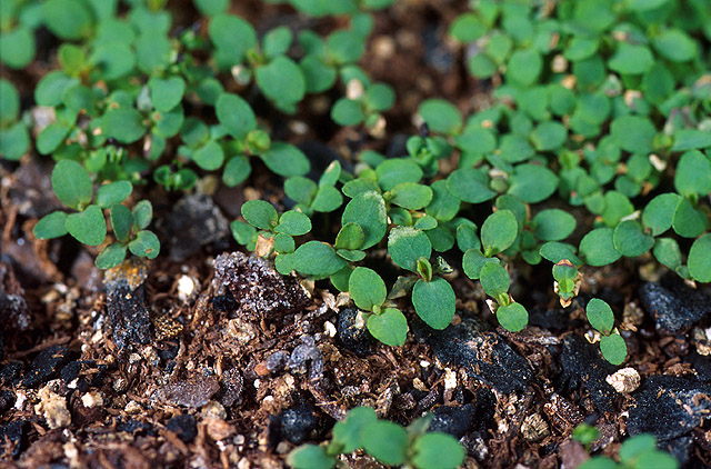 Plantlets of St. John's wart (Hypericum perforatum)